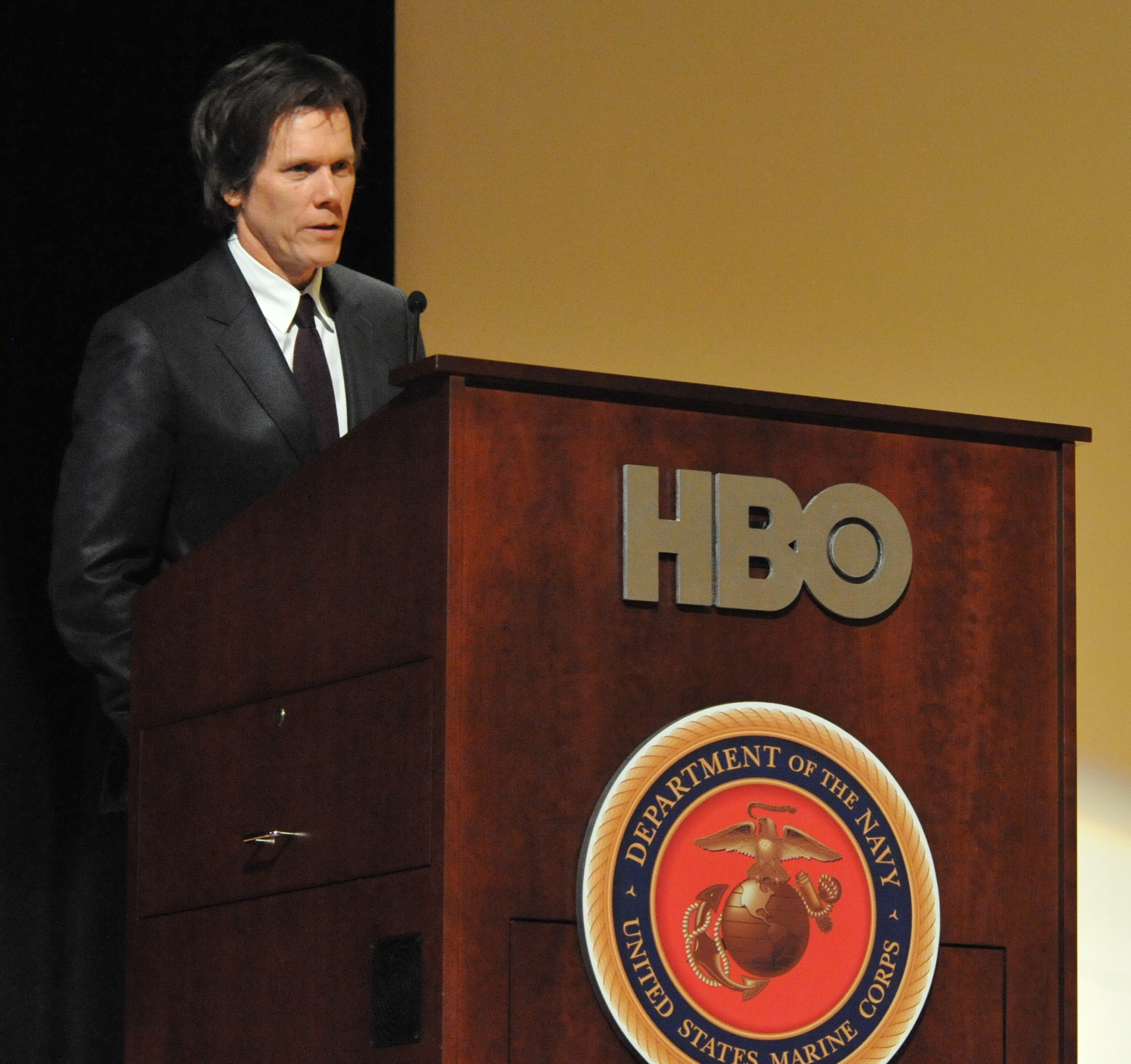 Kevin Bacon speaks at Little Hall Theater on Marine Corps Base Quantico prior to the Virginia premiere of HBO Films' Taking Chance on February 10, 2009. Bacon plays the role of U.S. Marine Lt. Col. Michael Strobl, the officer who escorted the body of Marine Lance Cpl. Chance Phelps home to Dubois, Wyoming from Dover, Delaware.